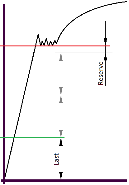 for ze Germans only